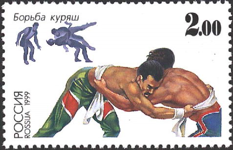 Russian stamps no 531 — Kouryash wrestling